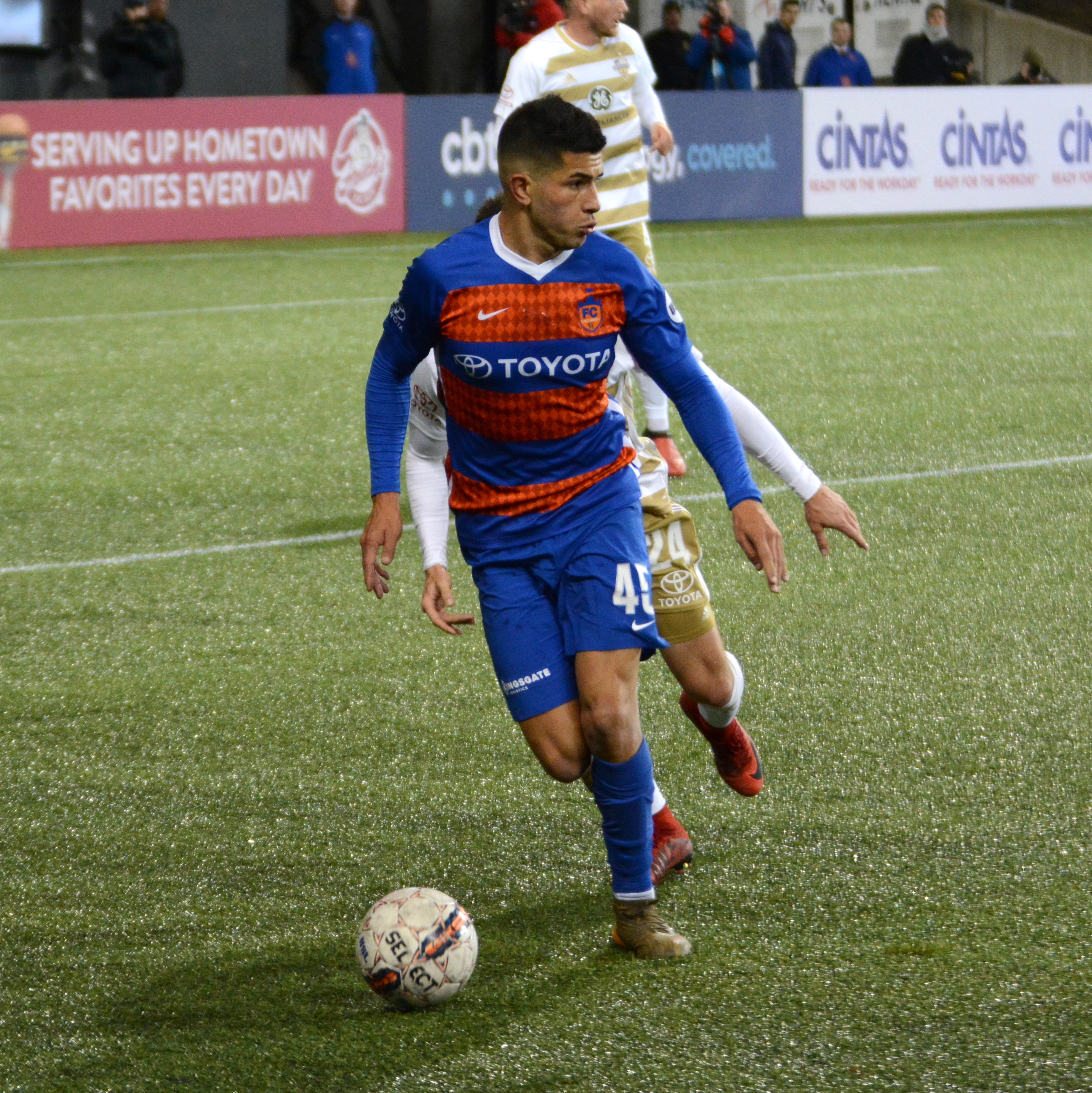 Taken during FC Cincinnati's home opener against Louisville City FC at Nippert Stadium in Cincinnati, USA on April 7, 2018.